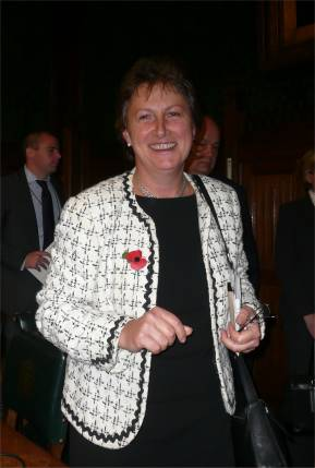 Gisela Stuart at the House of Commons, after chairing speech by Michael Chertoff. Event sponsored by the Henry Jackson Society of which she is a member.